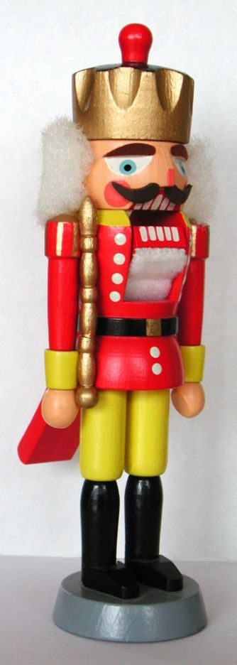 Nutcracker from Erzgebirge (East Germany)